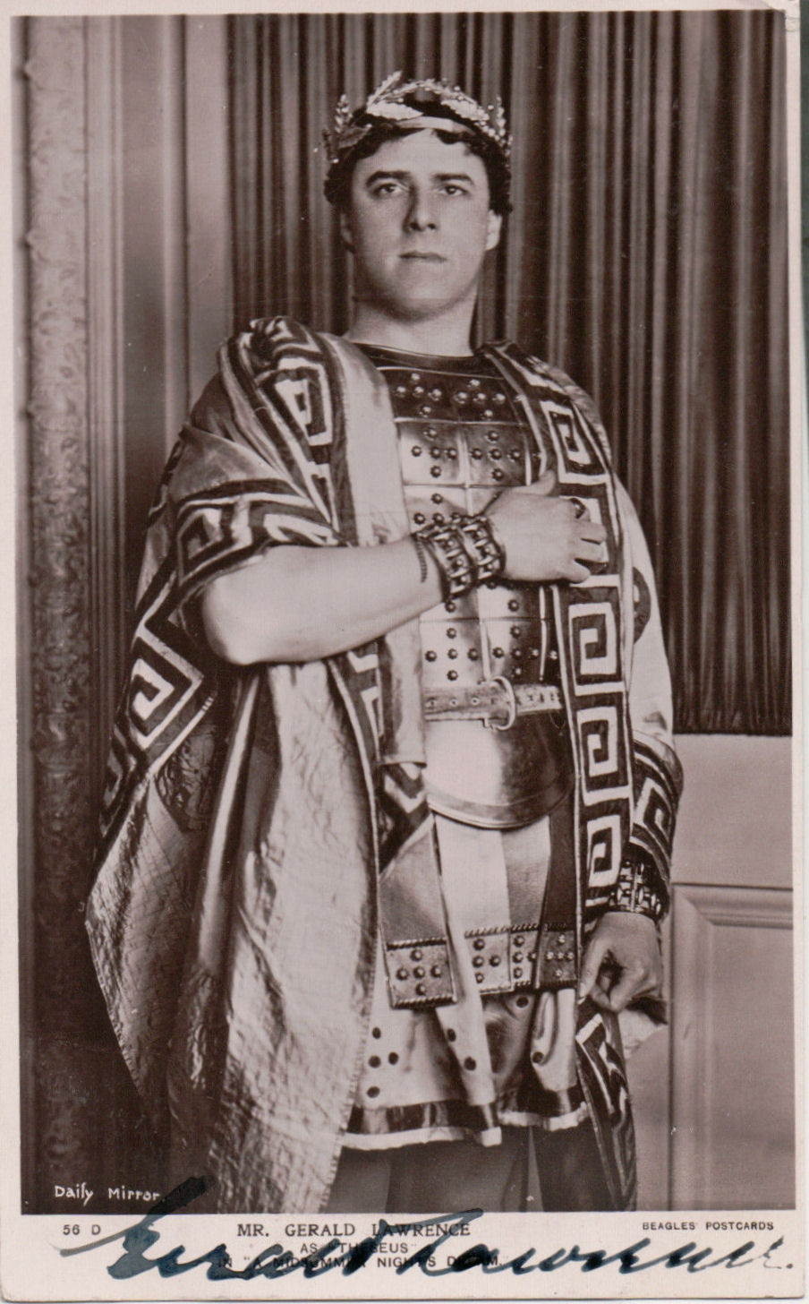 The actor-manager Gerald Lawrence (1873-1957) as Theseus in A Midsummer Night's Dream (1911)